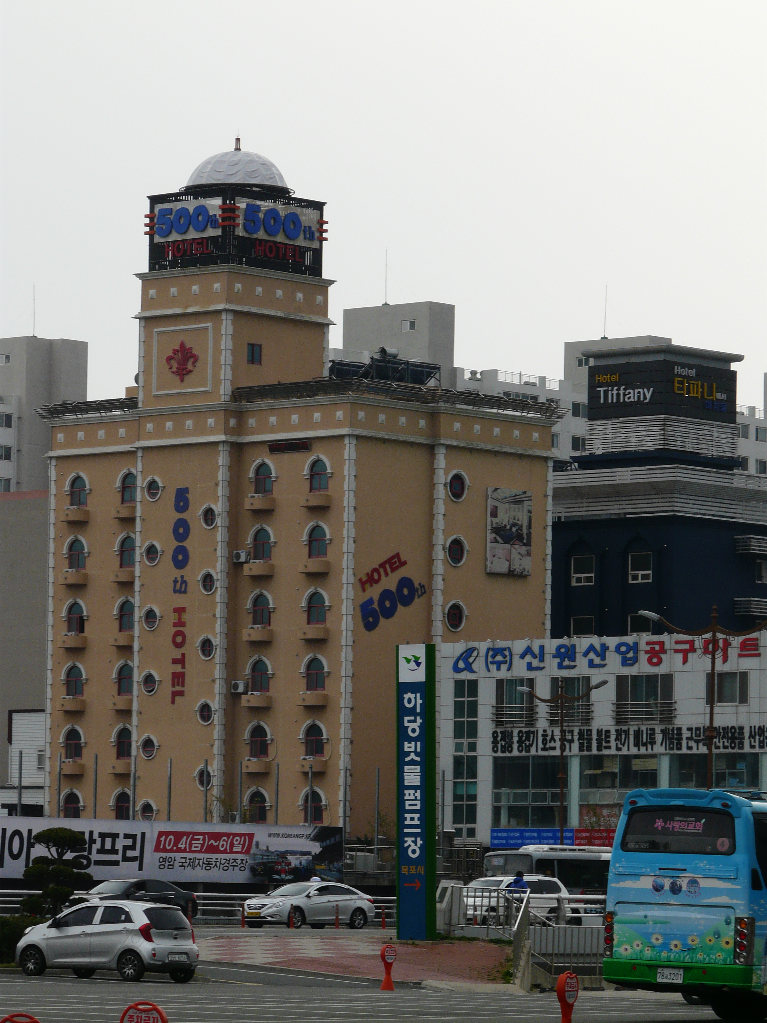 Photos from the city of Mokpo, Korea.